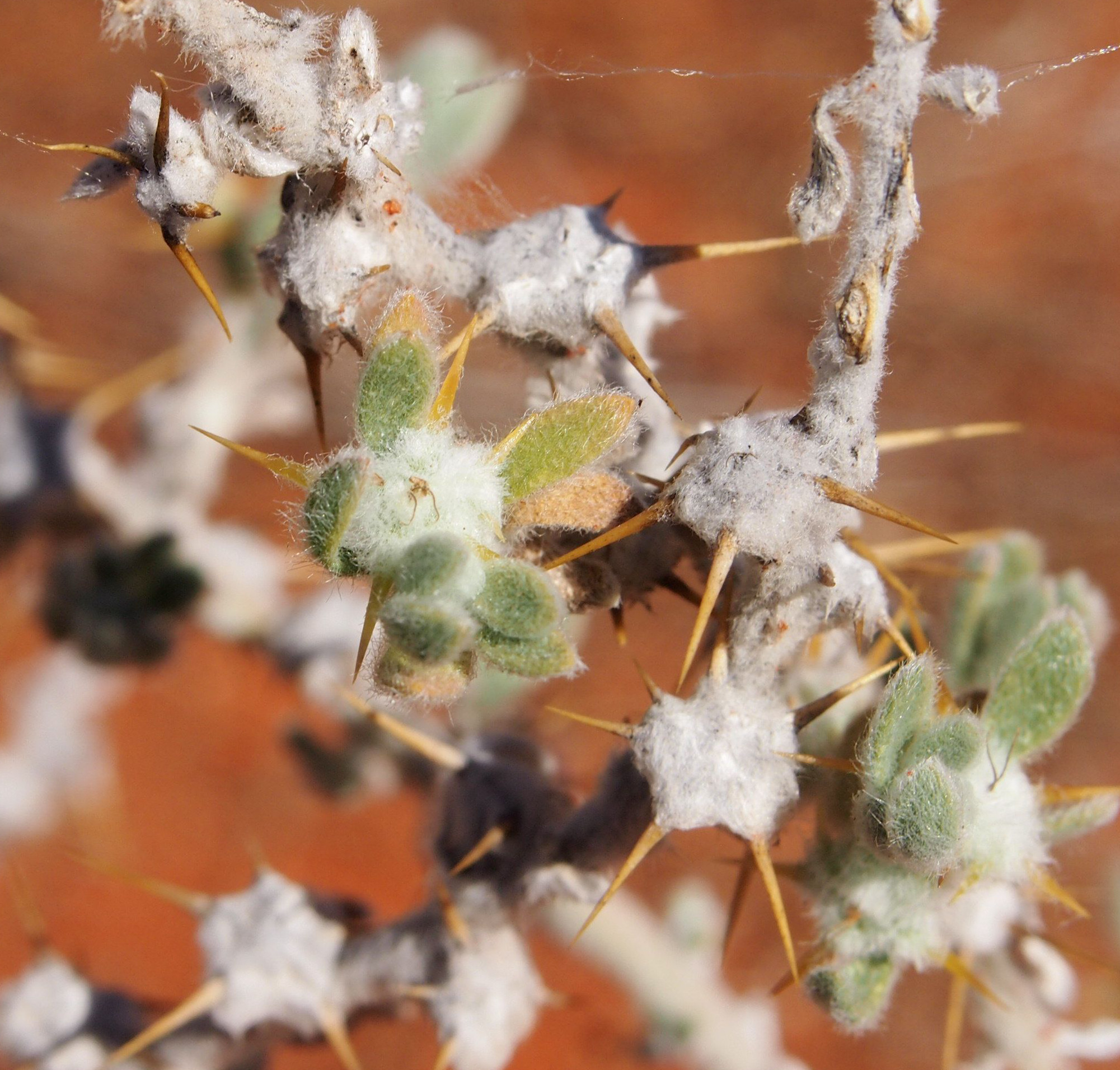 Sclerolaena cornishiana fruit